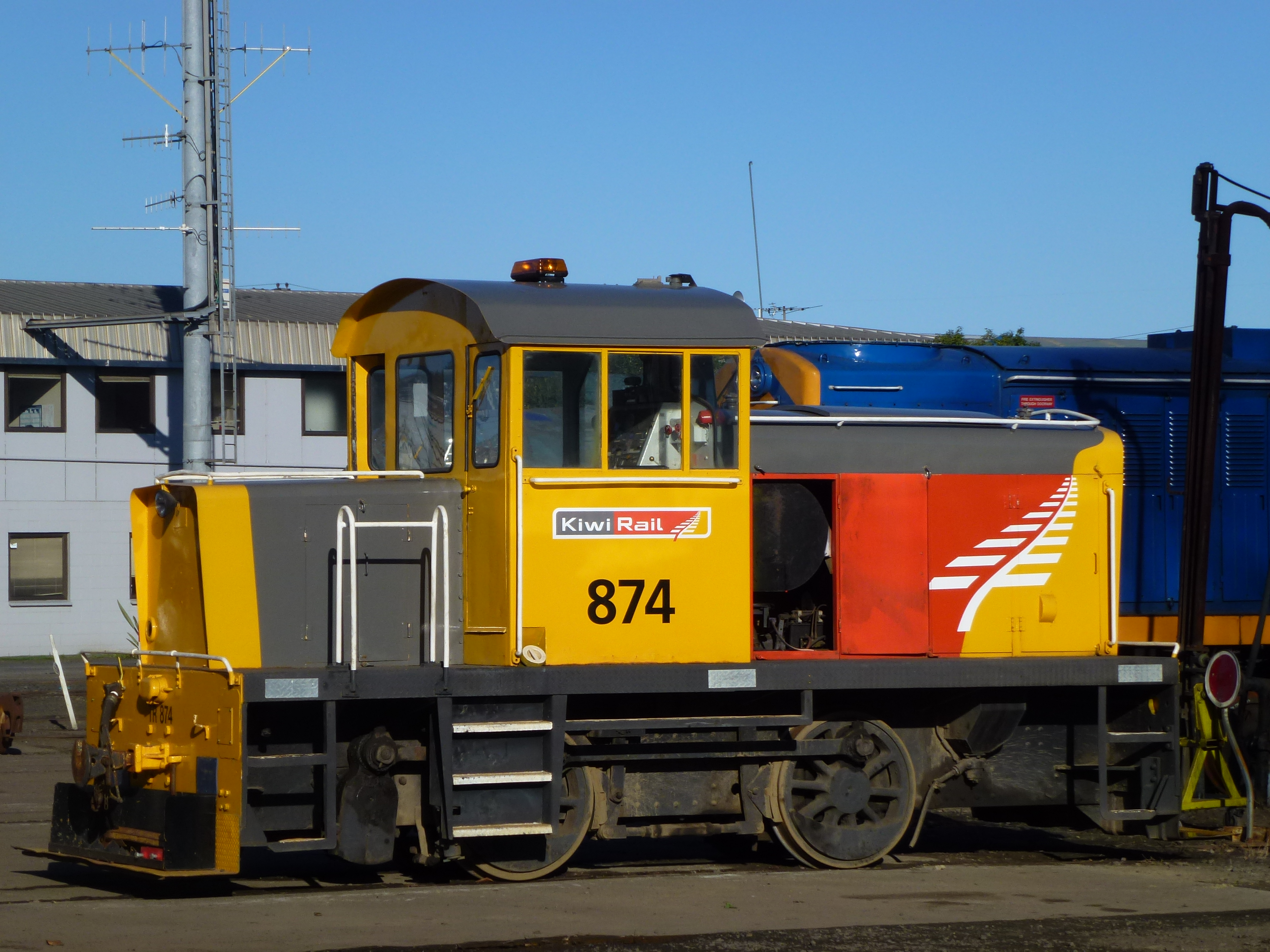 Photograph of New Zealand TR class locomotive 874, in KiwiRail livery, in Dunedin.